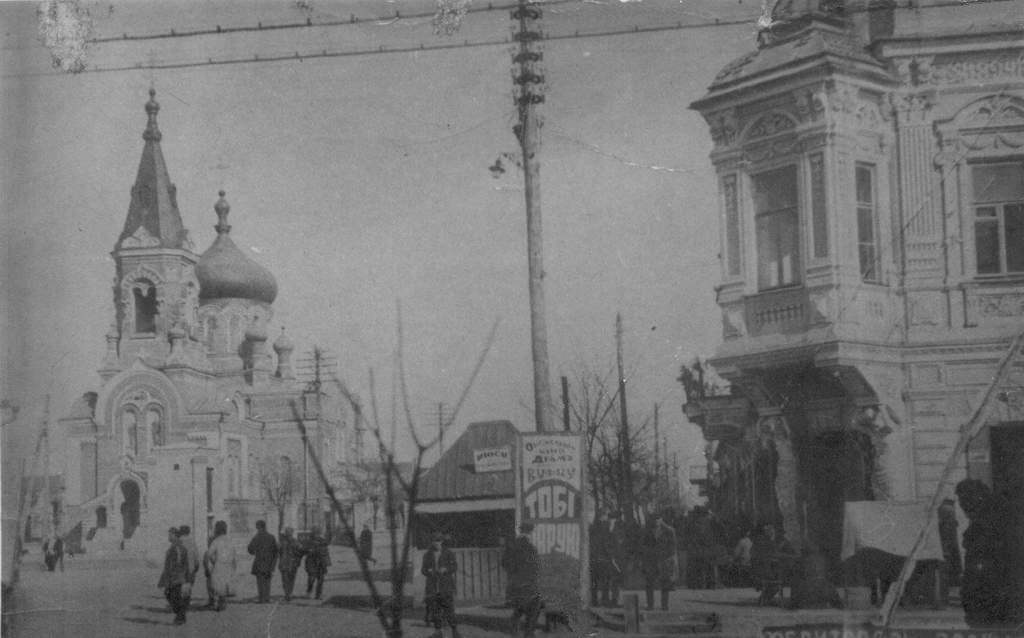 Cathedral square in Melitopol in early 20th century